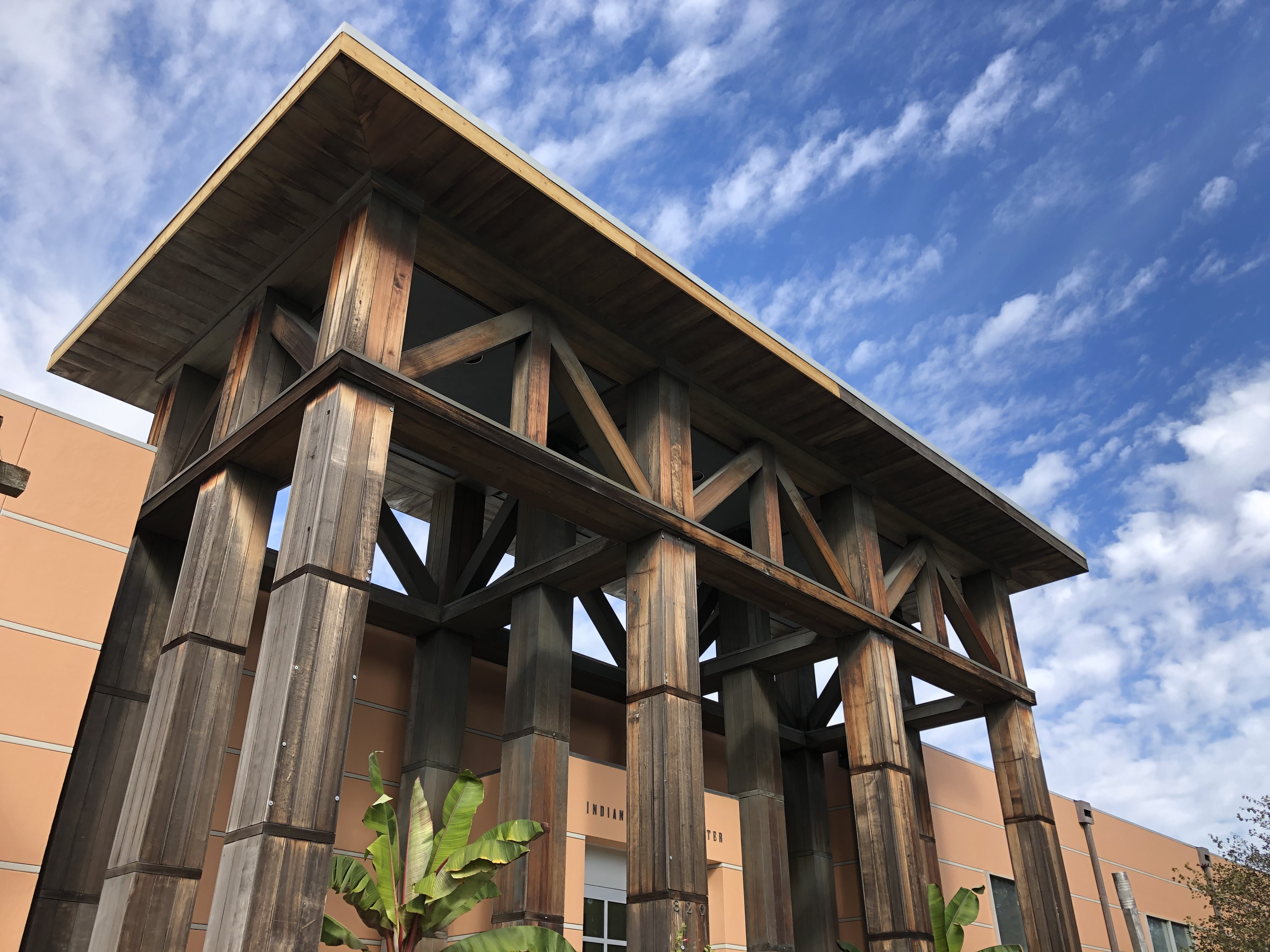 This photo was captured in October 2019 at the Indianapolis Art Center, Indianapolis, Indiana, USA.